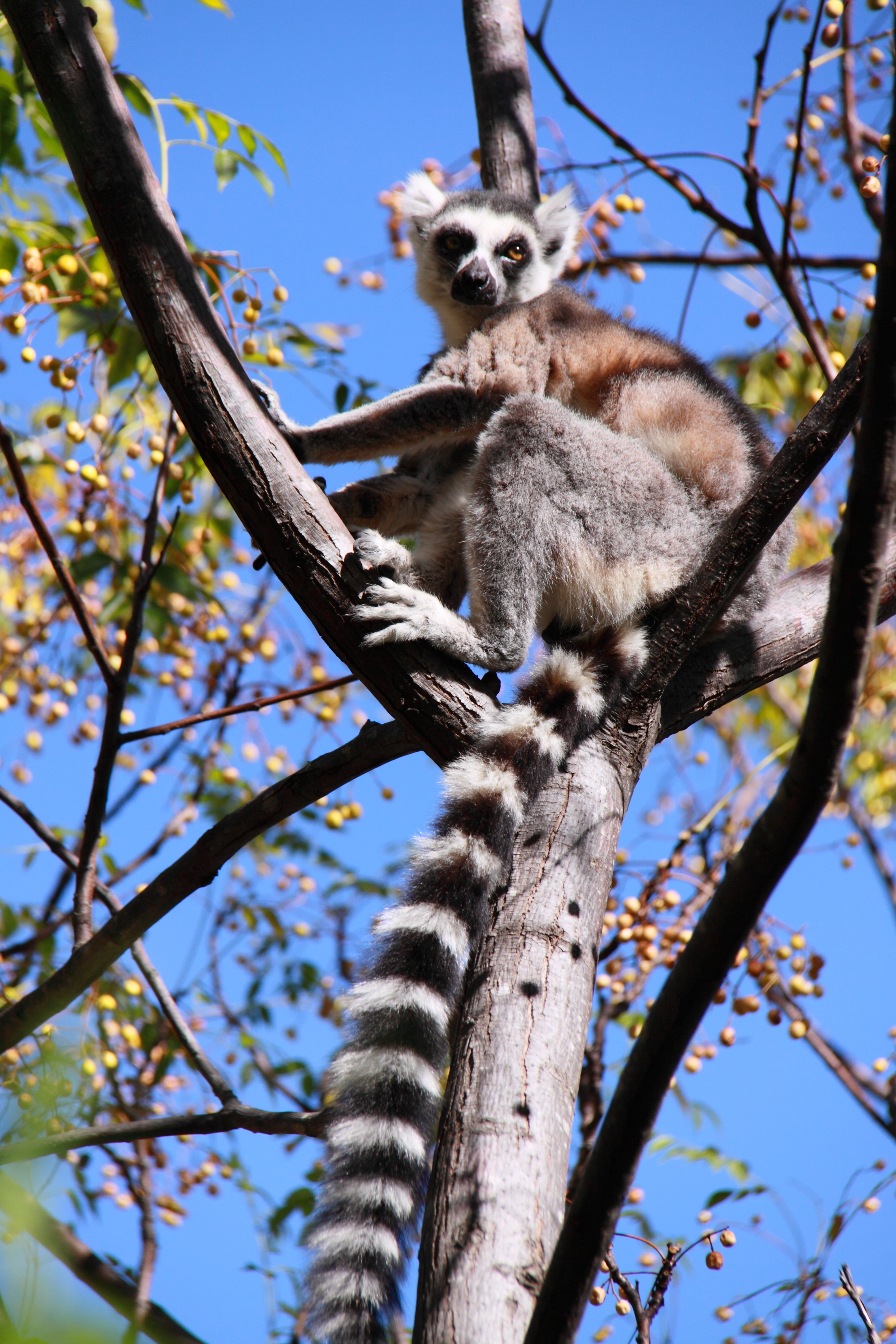 Lemur catta, Ranomafana National Park, 250 km south of Antananarivo, Madagascar